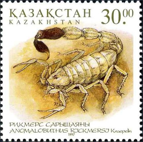 Stamp of Kazakhstan showing a paitnig of a Anomalobuthus Rickmersi Kraepelin